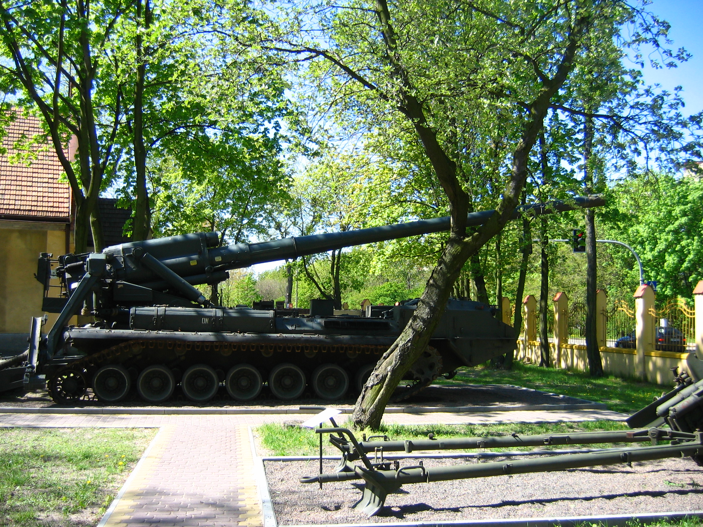 203-mm self-propelled gun 2S7 «Pion» in Toruń Artillery museum